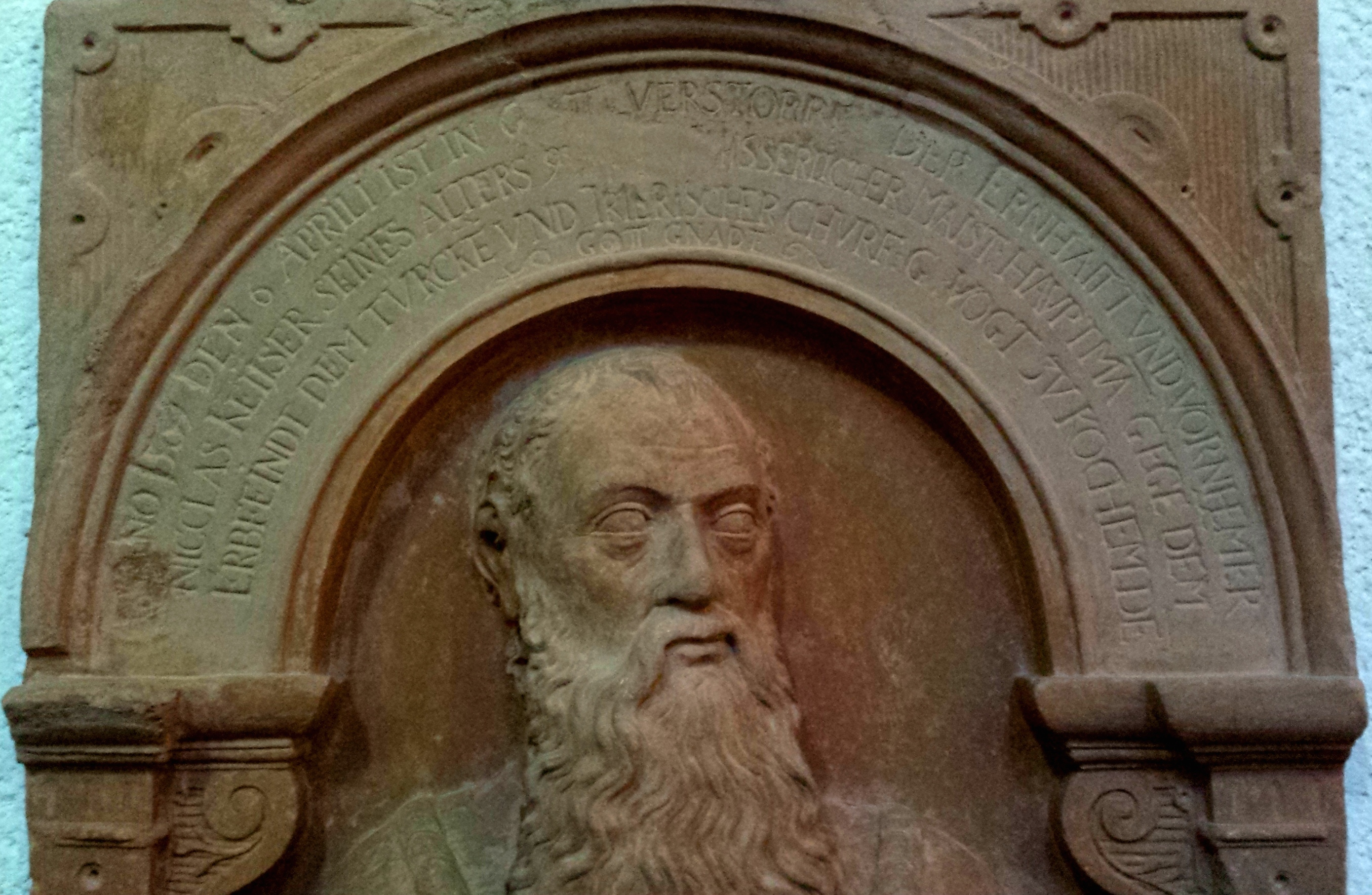 Niclas Keisjer arch frieze with inscription in the parish church St. Martin in Cochem